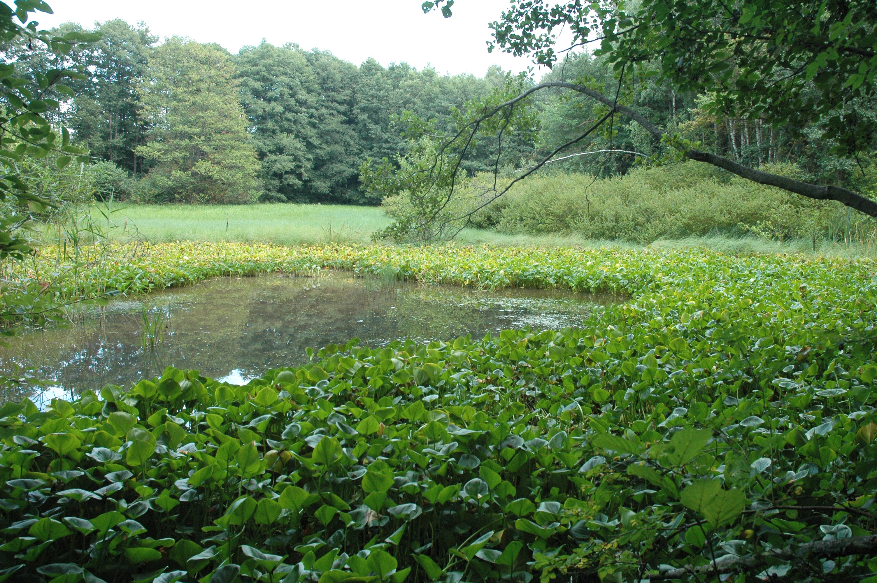 Natural monument V Koutech in Chrudim District, Czech Republic